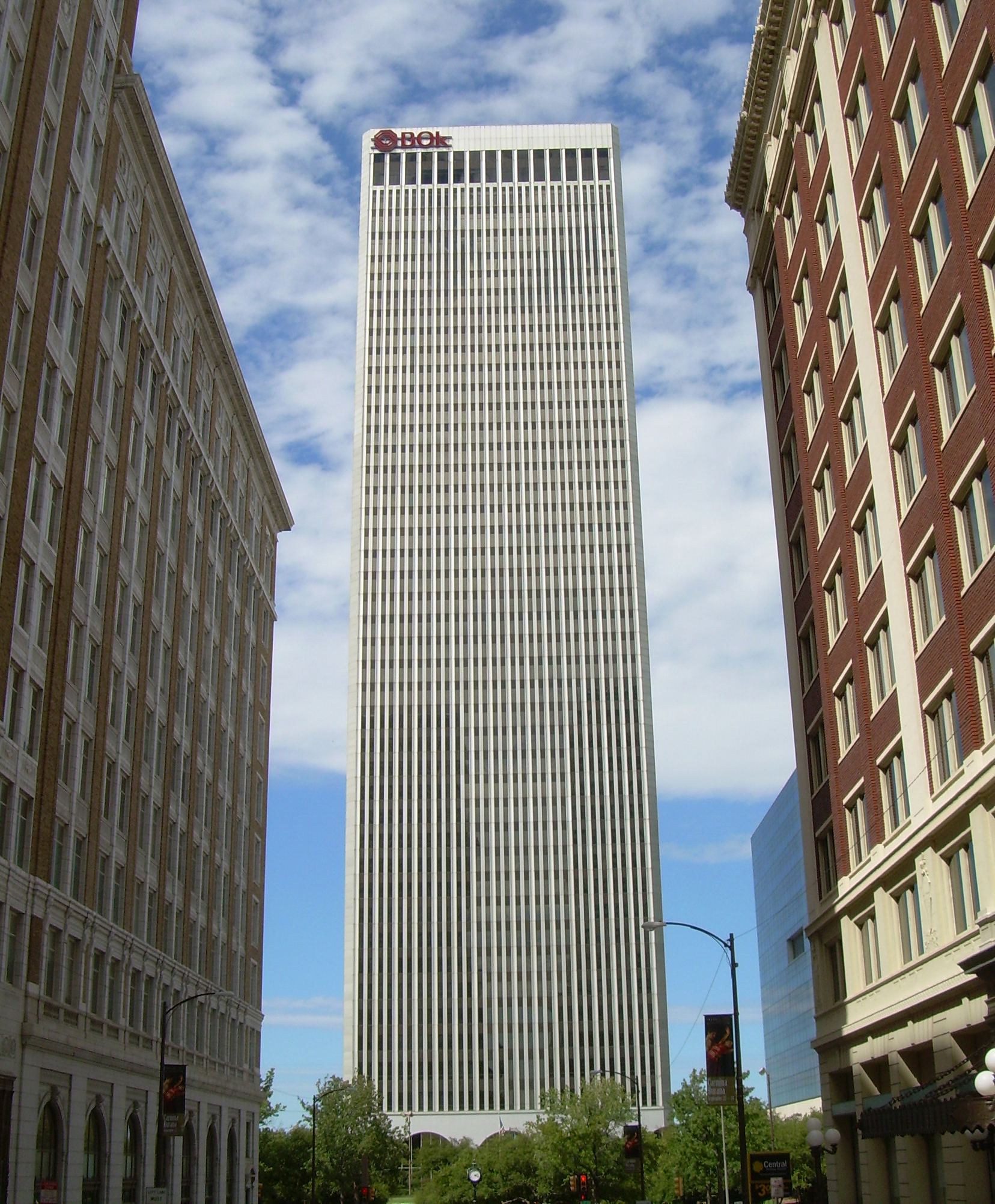 BOK Building